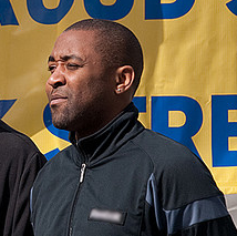 Darren Campbell in Chinatown, Manchester